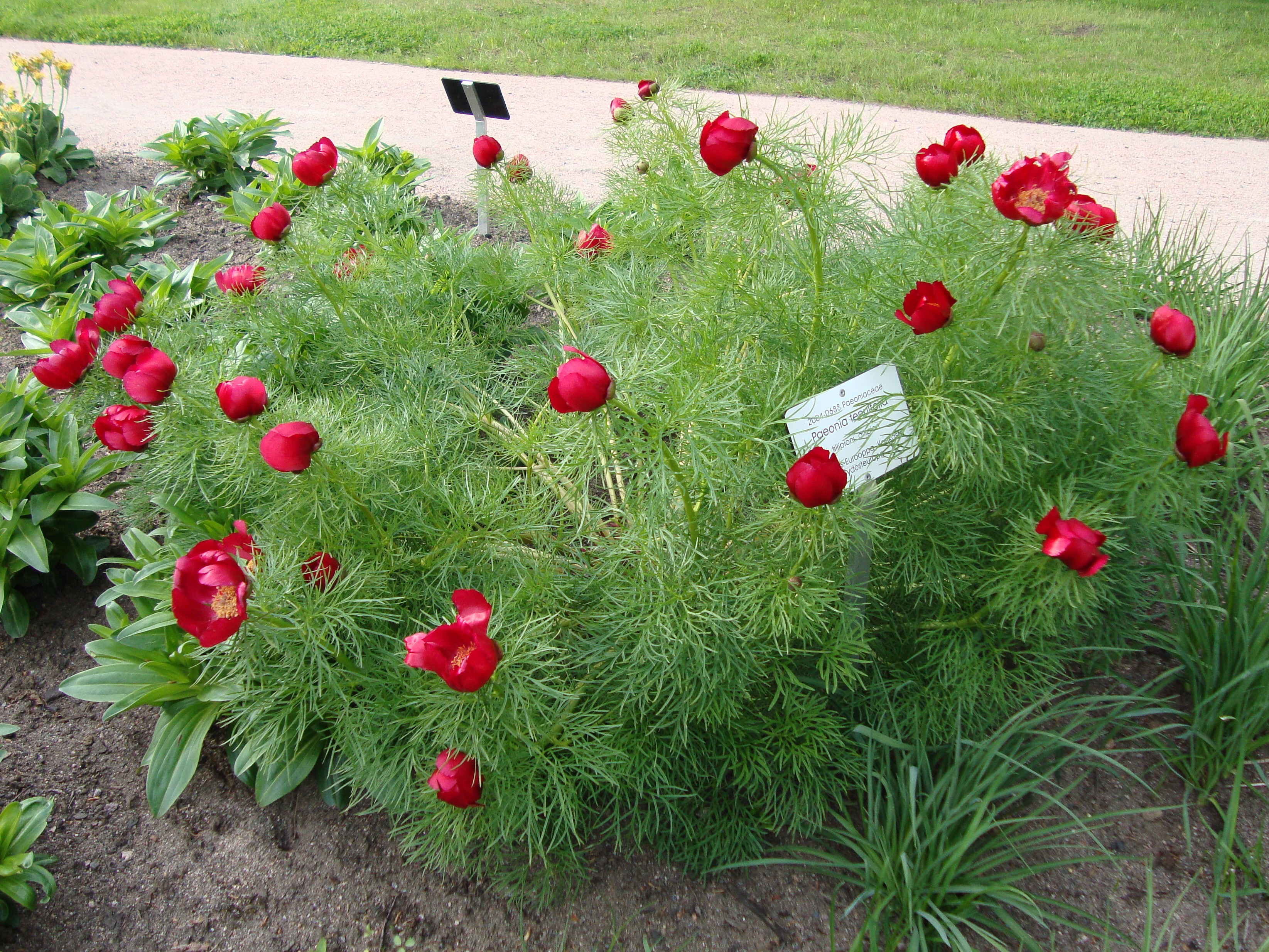 Paeonia tenuifolia is flowering in the Botanical Garden in Kumpula.